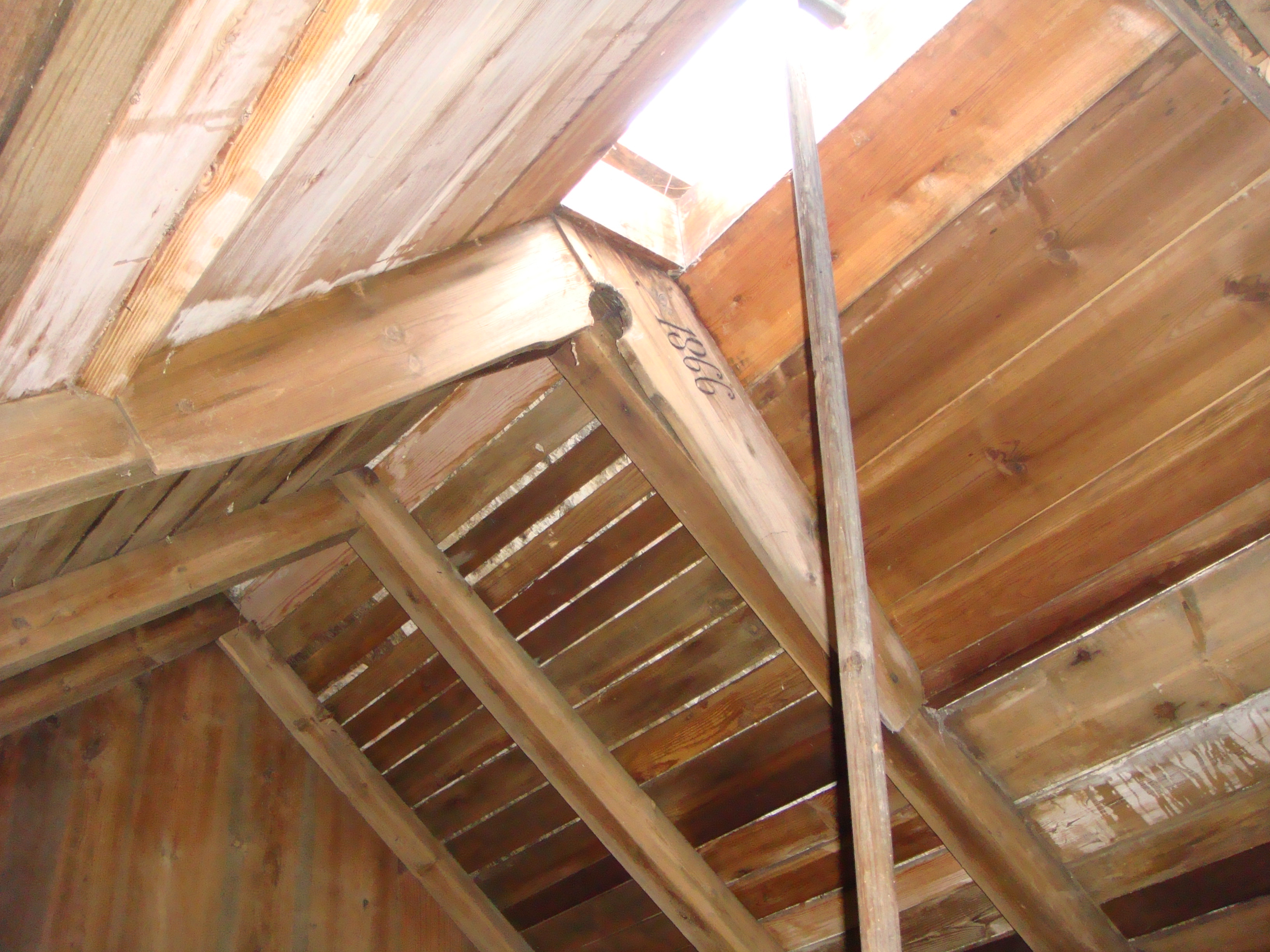 In the house from Mul on Bordø, Faeroe Islands, there is a "lyre" in the roof. This is an opening for smoke to escape from the open hearth with no chimney. It was also the only light source for the room. The dato 1866 is carved on one beam. At the Open-Air Museum.